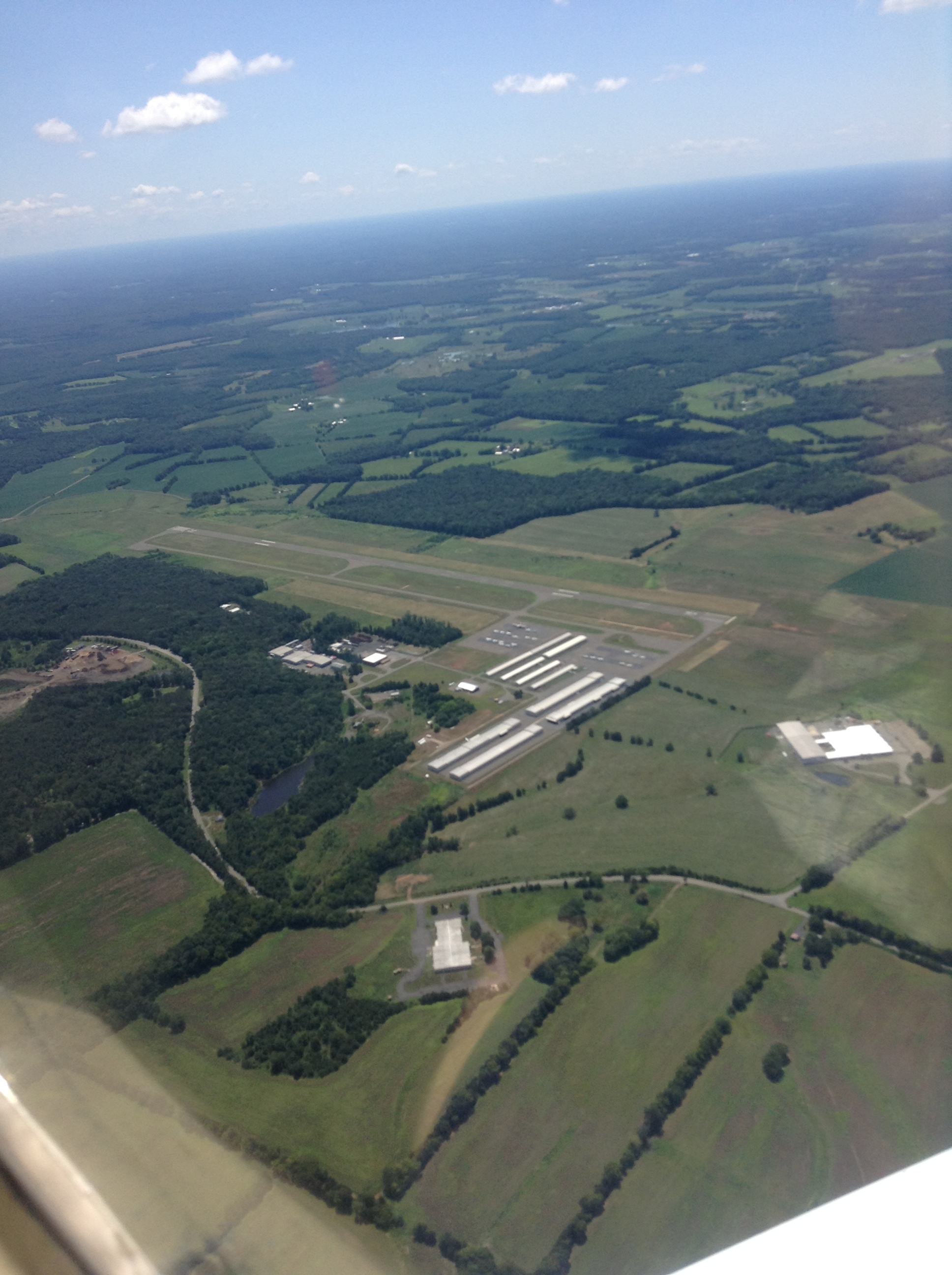 A photo of the Warrenton-Fauquier Airport in Fauquier County, Virginia, United States, August 2015.